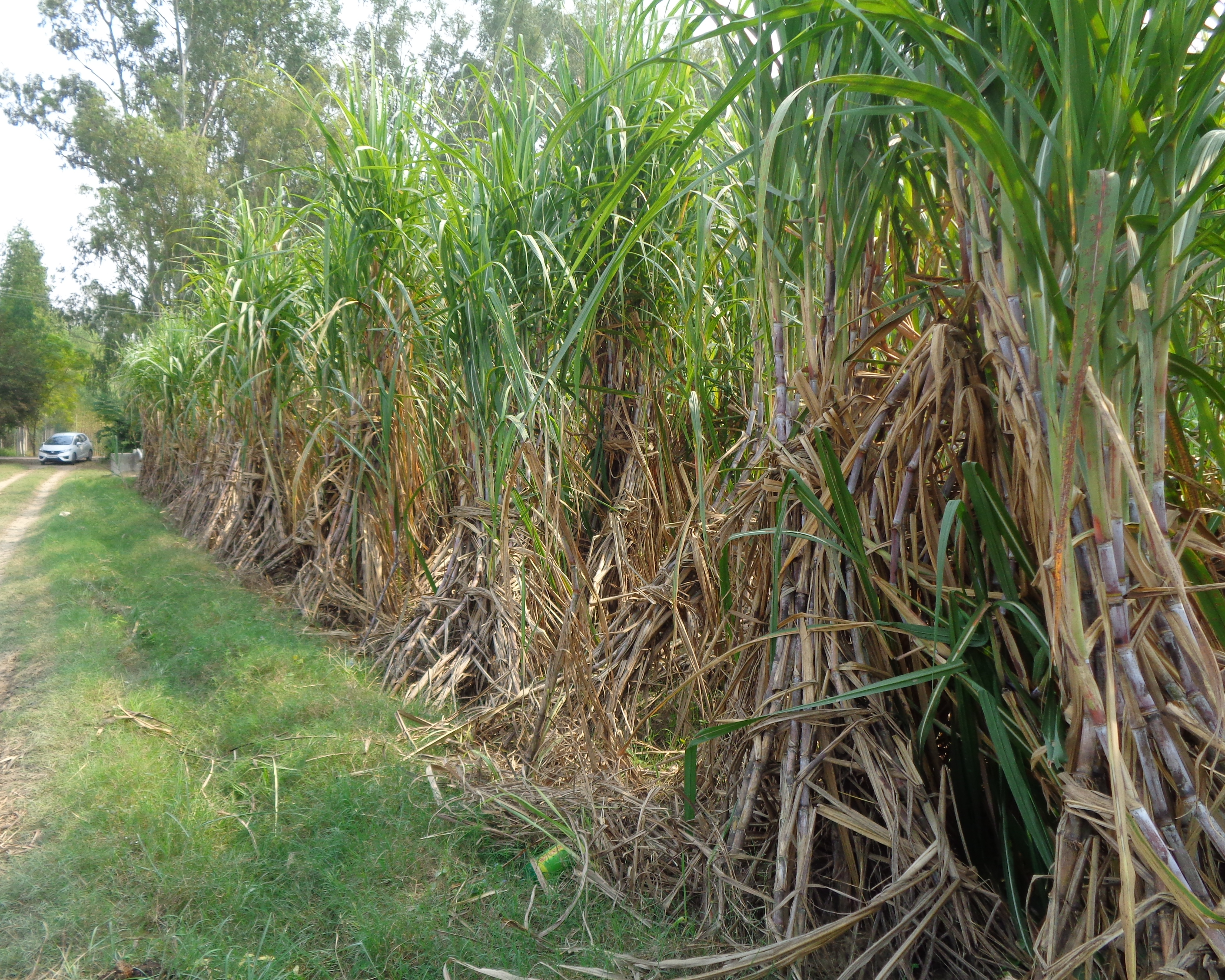 Sugarcane farm in Punjab